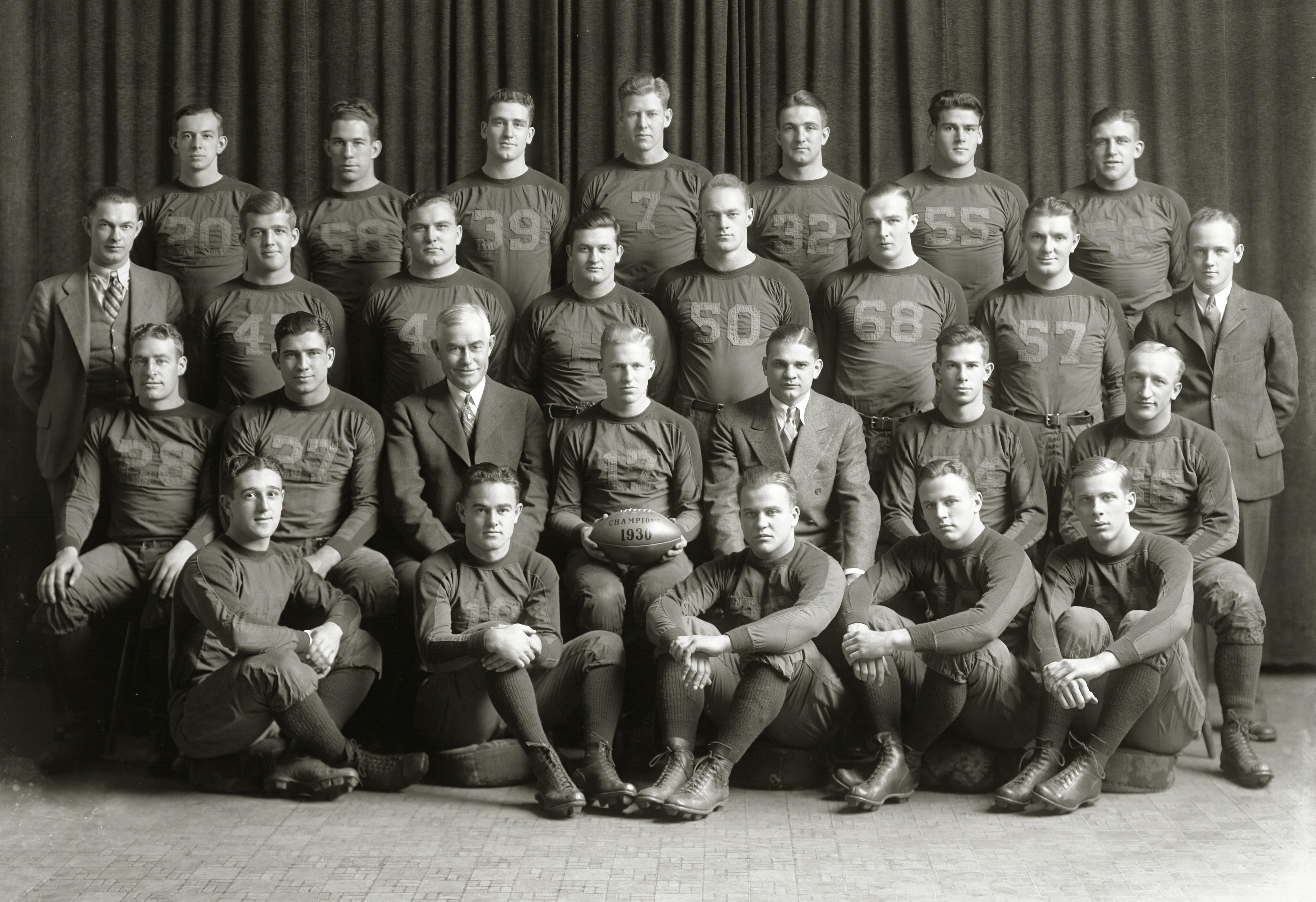 Photograph of 1930 Michigan Wolverines football team This work is in the public domain because it was published in the United States between 1925 and 1963 and although there may or may not have been a copyright notice, the copyright was not renewed. Unless its author has been dead for the required period, it is copyrighted in the countries or areas that do not apply the rule of the shorter term for US works, such as Canada (50 pma), Mainland China (50 pma, not Hong Kong or Macao), Germany (70 pma), Mexico (100 pma), Switzerland (70 pma), and other countries with individual treaties. See Commons:Hirtle chart for further explanation. This work is in the public domain in the United States because it was published in the United States between 1925 and 1977, inclusive, without a copyright notice. For further explanation, see Commons:Hirtle chart as well as a detailed definition of "publication" for public art. Note that it may still be copyrighted in jurisdictions that do not apply the rule of the shorter term for US works (depending on the date of the author's death), such as Canada (50 p.m.a.), Mainland China (50 p.m.a., not Hong Kong or Macao), Germany (70 p.m.a.), Mexico (100 p.m.a.), Switzerland (70 p.m.a.), and other countries with individual treaties.